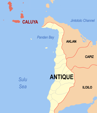 Map of Antique showing the location of Caluya